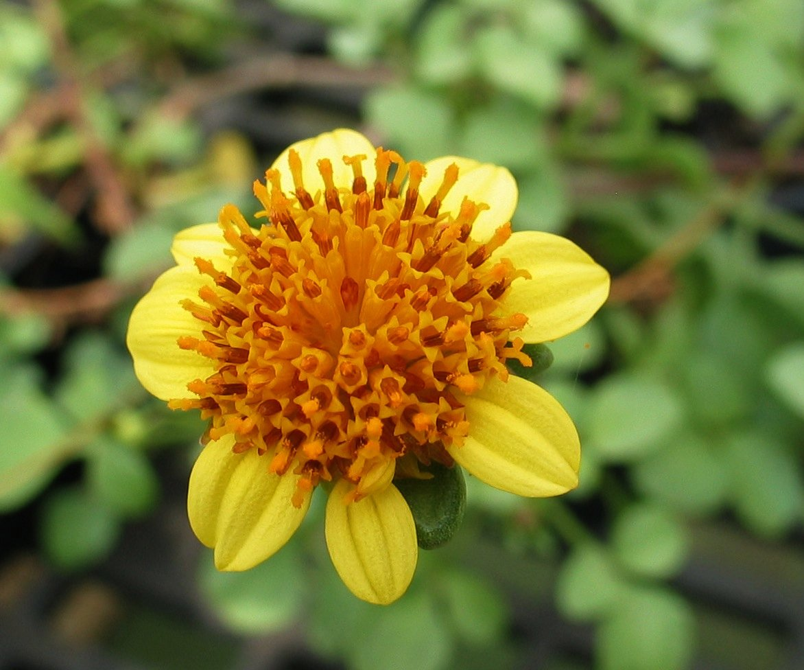 Koʻokoʻolau or Maui beggarticks Asteraceae Endemic to the Hawaiian Islands Oʻahu (Cultivated)